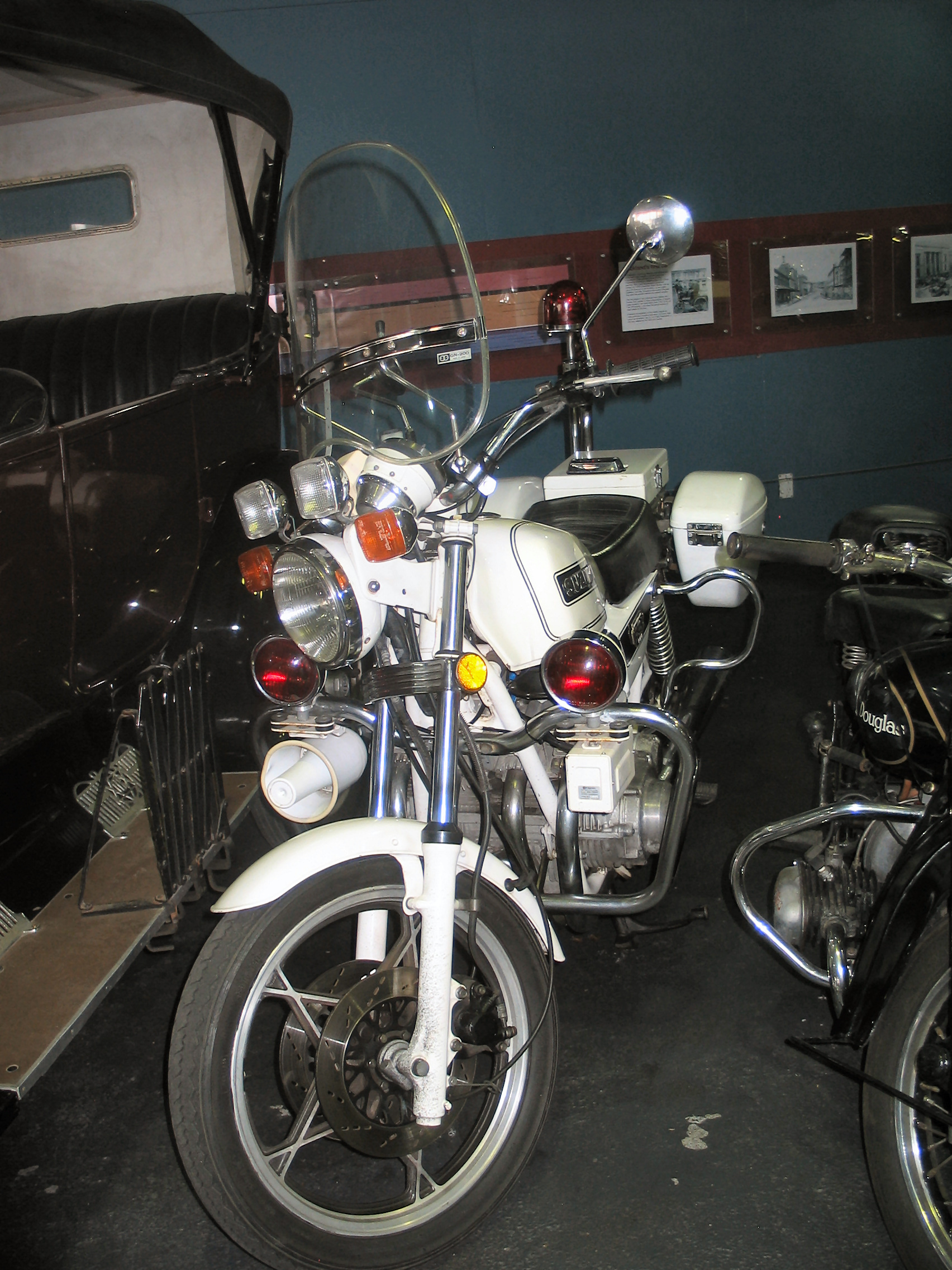 Motorcycle used for highway patrol work by the New Zealand Ministry of Transport. This bike is in the Museum of Transport and Technology, Auckland, New Zealand.